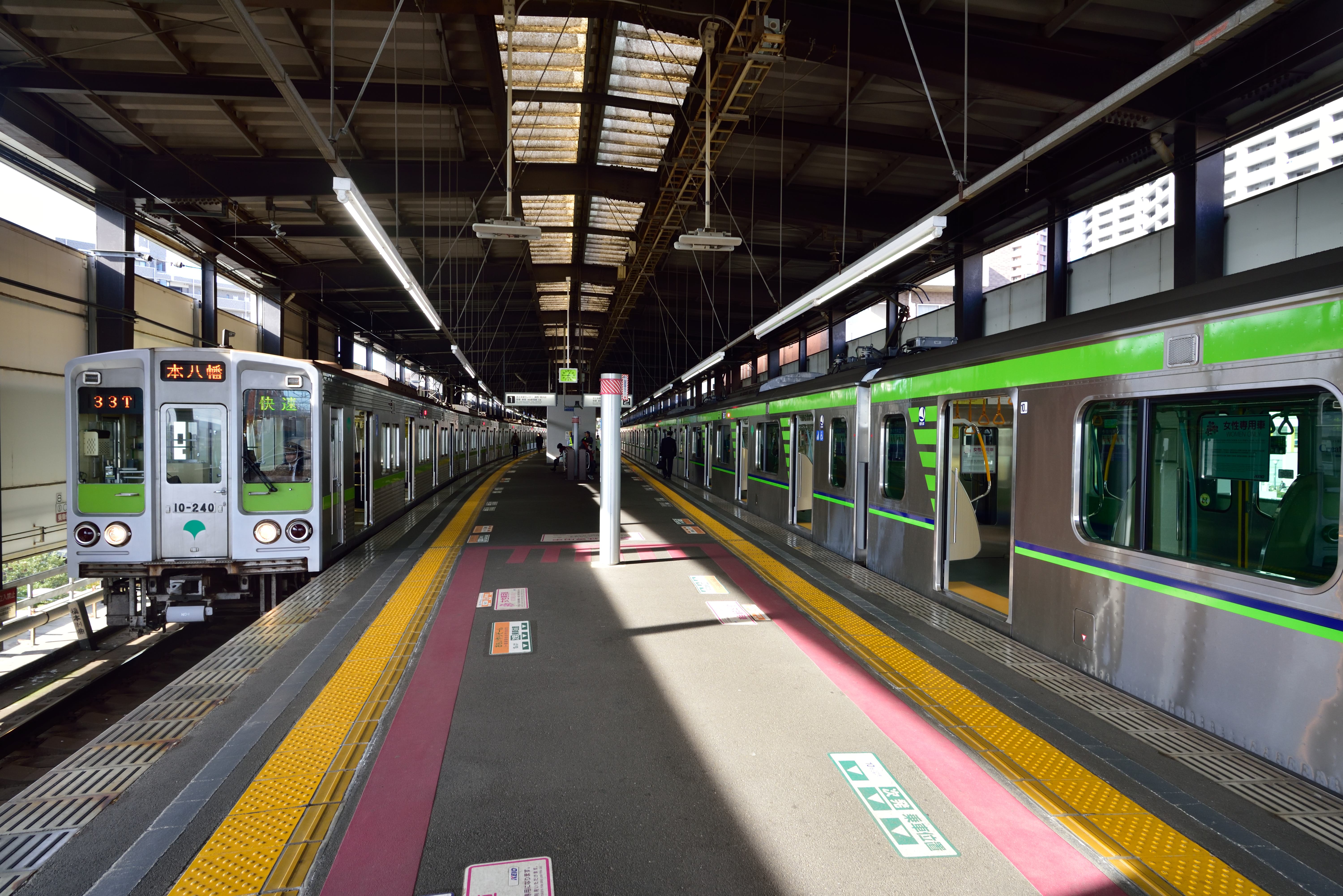 Toei 10-000 (left) and 10-300 (right) series EMUs at Hashimoto Station on the Keio Sagamihara Line in Kanagawa Prefecture, Japan